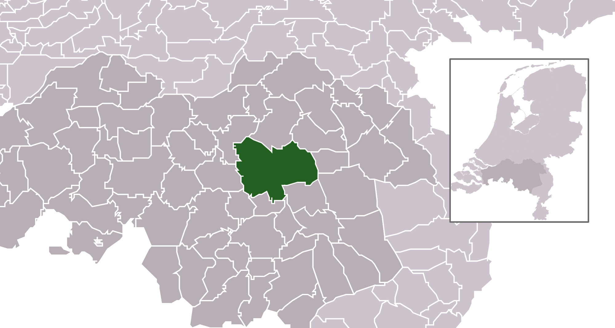 Municipality of Meierijstad Location maps for the 441 municipalities in the Netherlands. Boundaries 1/1/2009 Automatically generated with script File name contains "Municipality codes" (CBS-code) as specified in: [1] Created in svg using coordinate data derived from ESRI data published by Centraal Bureau voor de Statistiek, Voorburg/Heerlen. ([2]) Color coding and original design by user Mtcv (2006/2007) ([3]) The copyright holder of this file, Centraal Bureau voor de Statistiek, allows anyone to use it for any purpose, provided that the copyright holder is properly attributed. Redistribution, derivative work, commercial use, and all other use is permitted. Attribution: Centraal Bureau voor de Statistiek This work is free and may be used by anyone for any purpose. If you wish to use this content, you do not need to request permission as long as you follow any licensing requirements mentioned on this page.